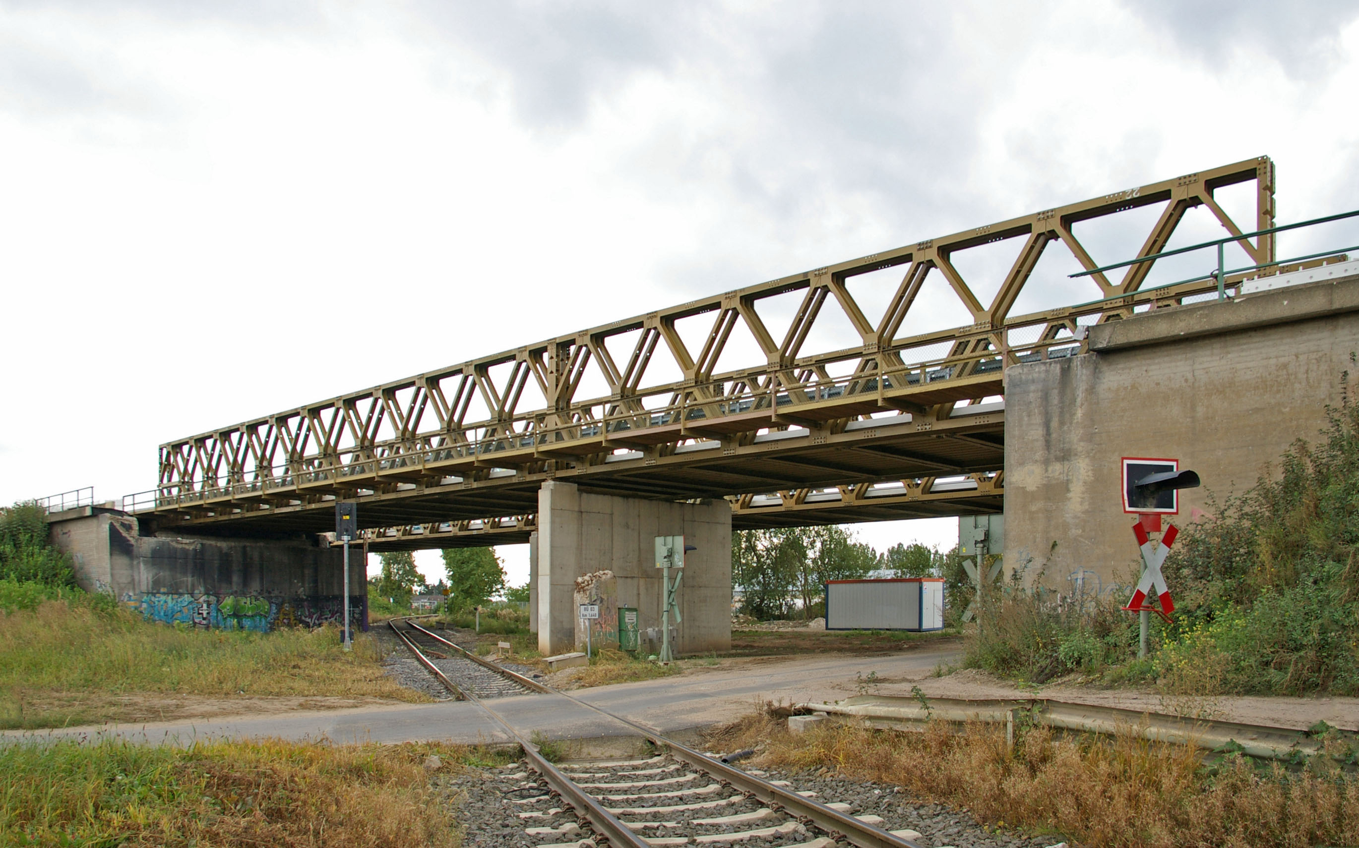 Auxiliary Bridge Autobahn 57 near Nievenheim, "D-Bruecke"-type